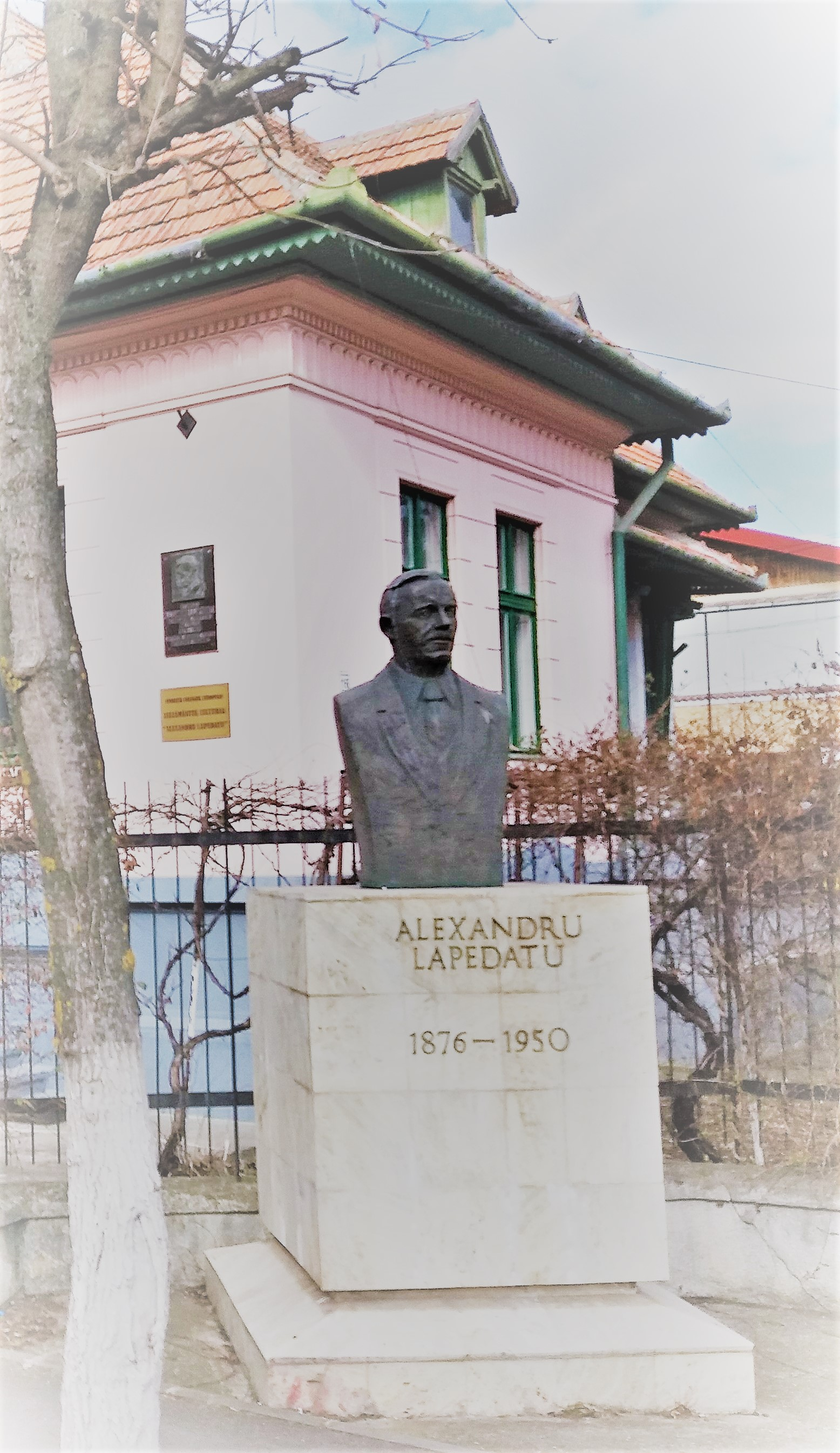 Al. Lapedatu statue, D. Bolintineanu Street, Cluj-Napoca, Romania